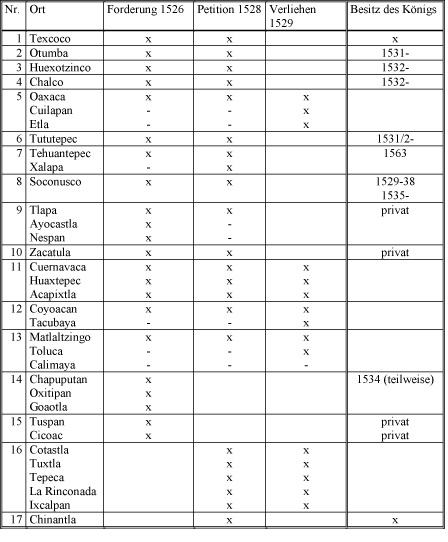 List of Cortés' properties